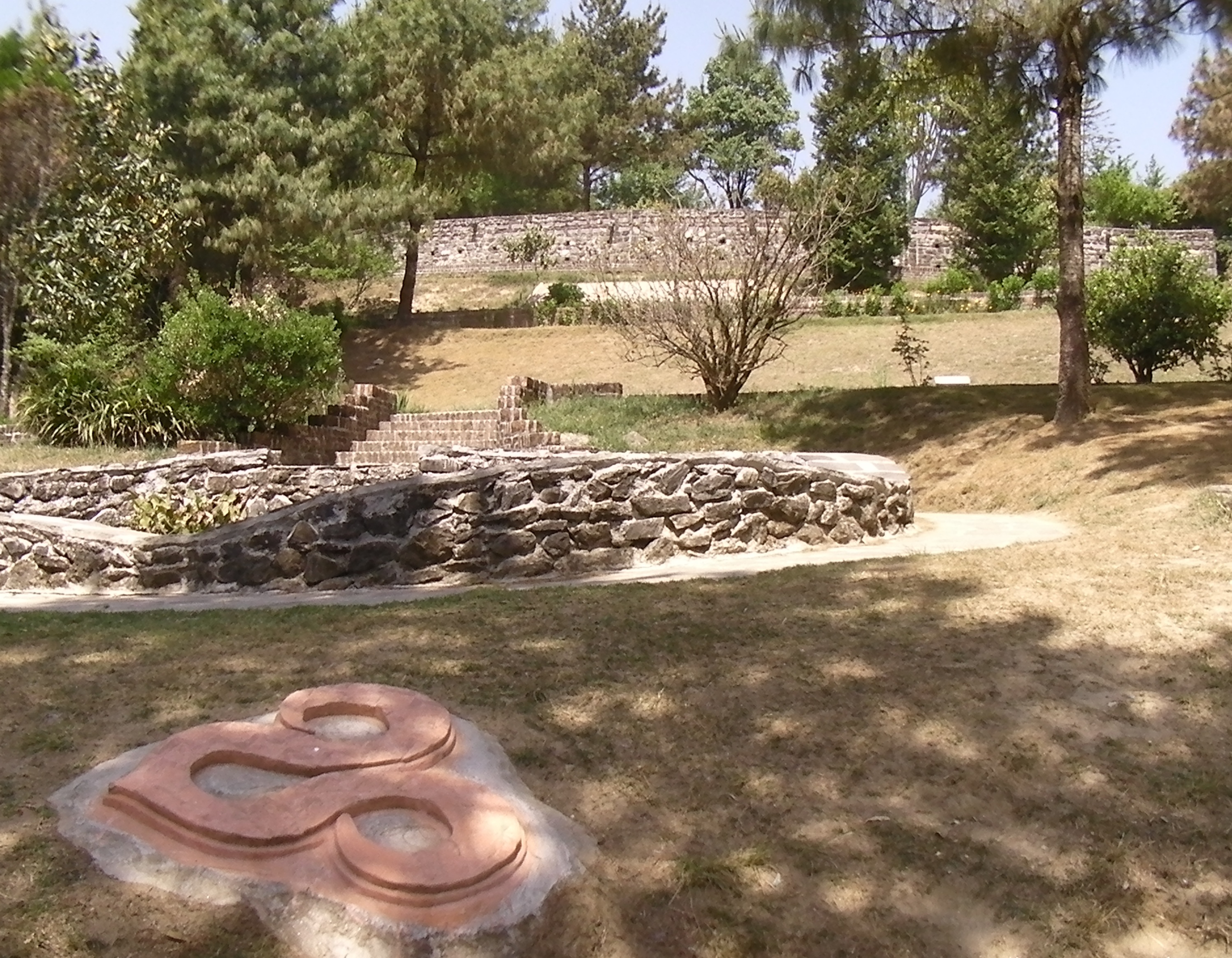 This memorial park in Kakani, Nepal is dedicated to the memory of those killed in 1992 crash of Thai Airways International Flight 311. Camera location elevation is 2055 meters.